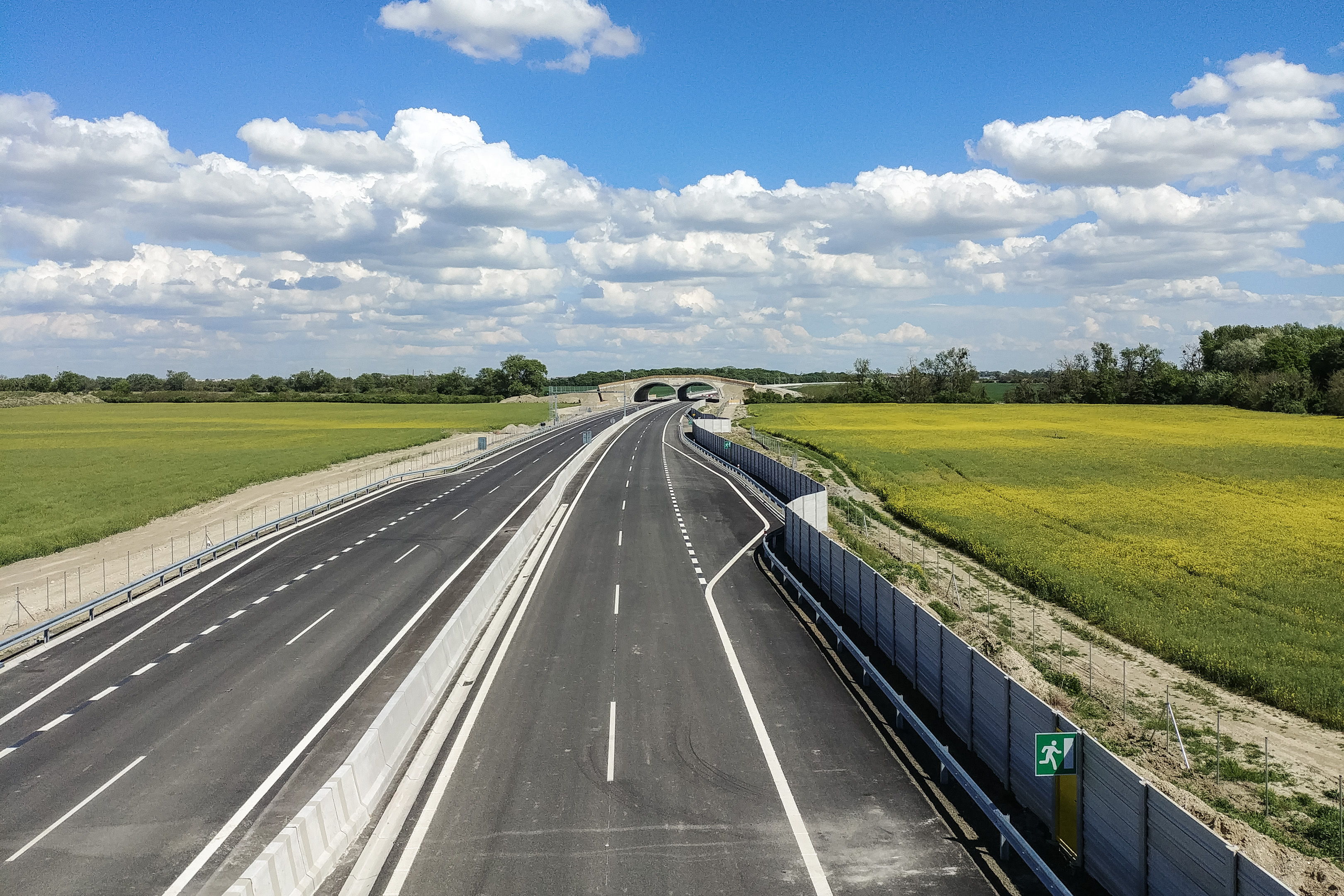 R7 expressway near D4 (Bratislava bypass) intersection Ketelec